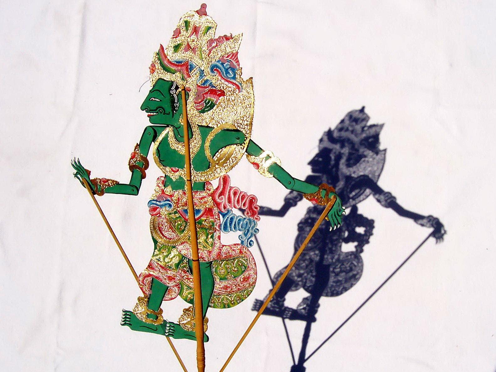 Shadow puppet from Bali, representing Kresna, of the Mahabarata epic